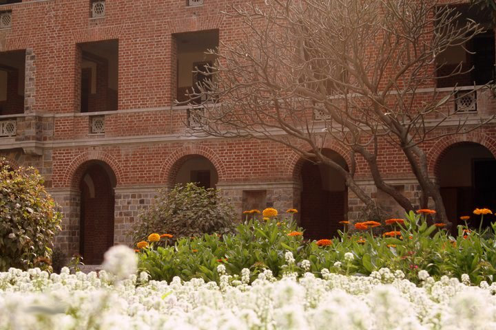 Miranda House , University of Delhi .